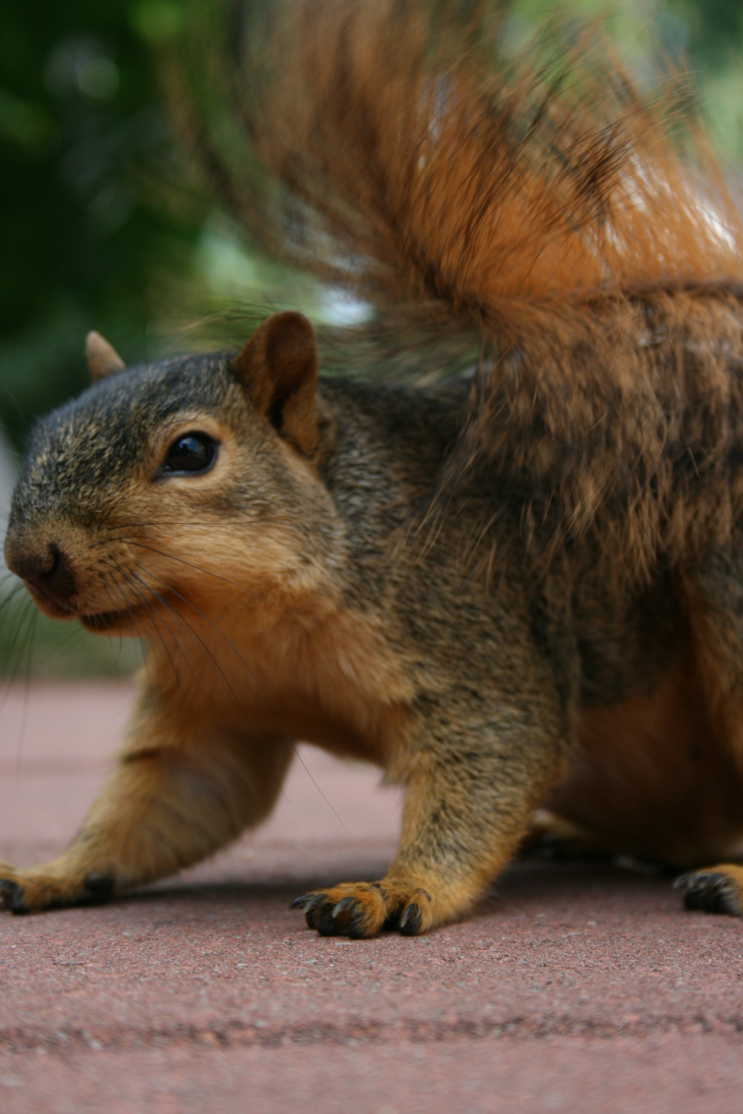 A fox squirrel local to Portage, MI. This particular squirrel is extremely used to humans and no zoom was used on this picture.